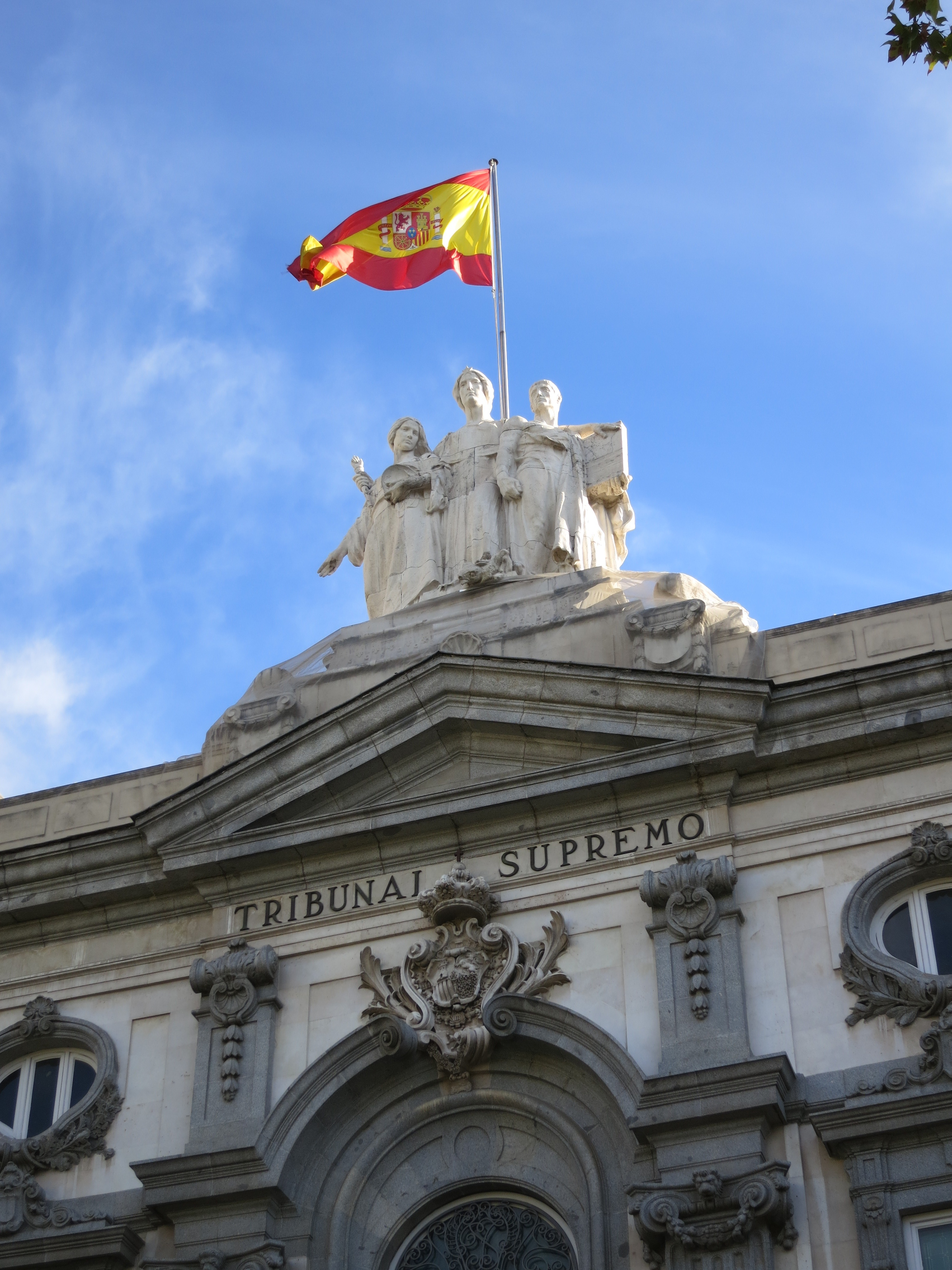 Madrid: Supreme Court.